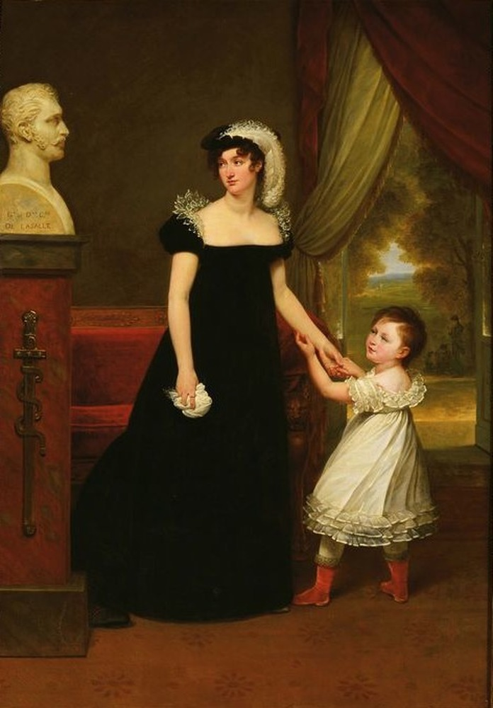 Josephine Berthier, née d'Aiguillon